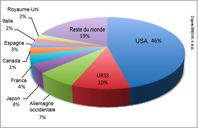 French translation ot another file of wikimedia commons : File:Consumidors.png